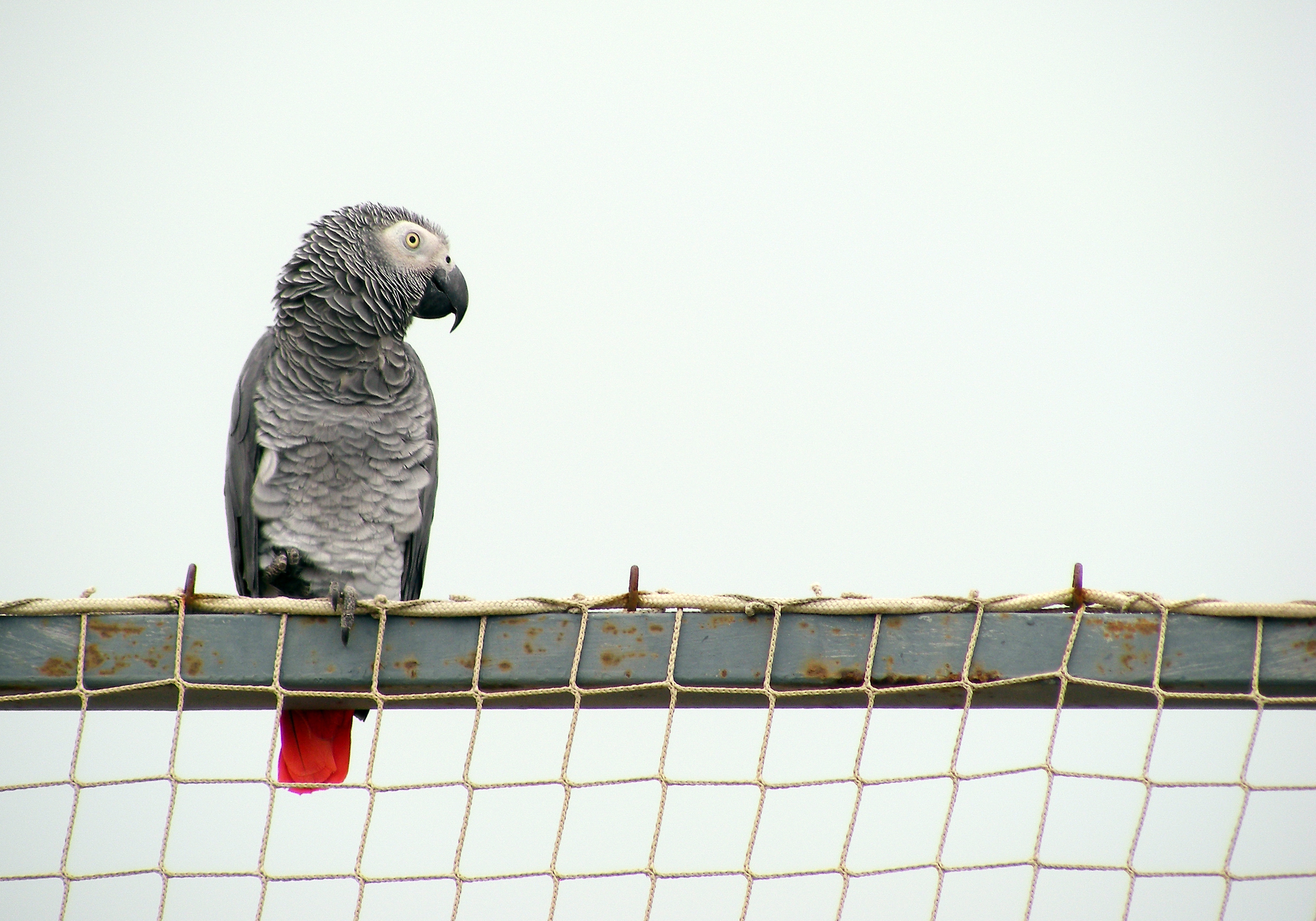 An African Grey Parrot, Psittacus erithacus perching on a fence.